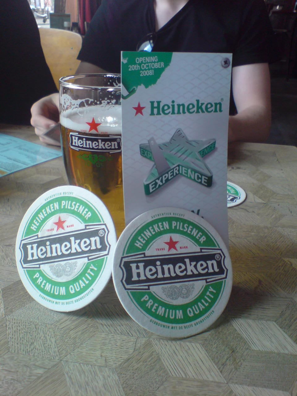 Heineken in its native Amsterdam